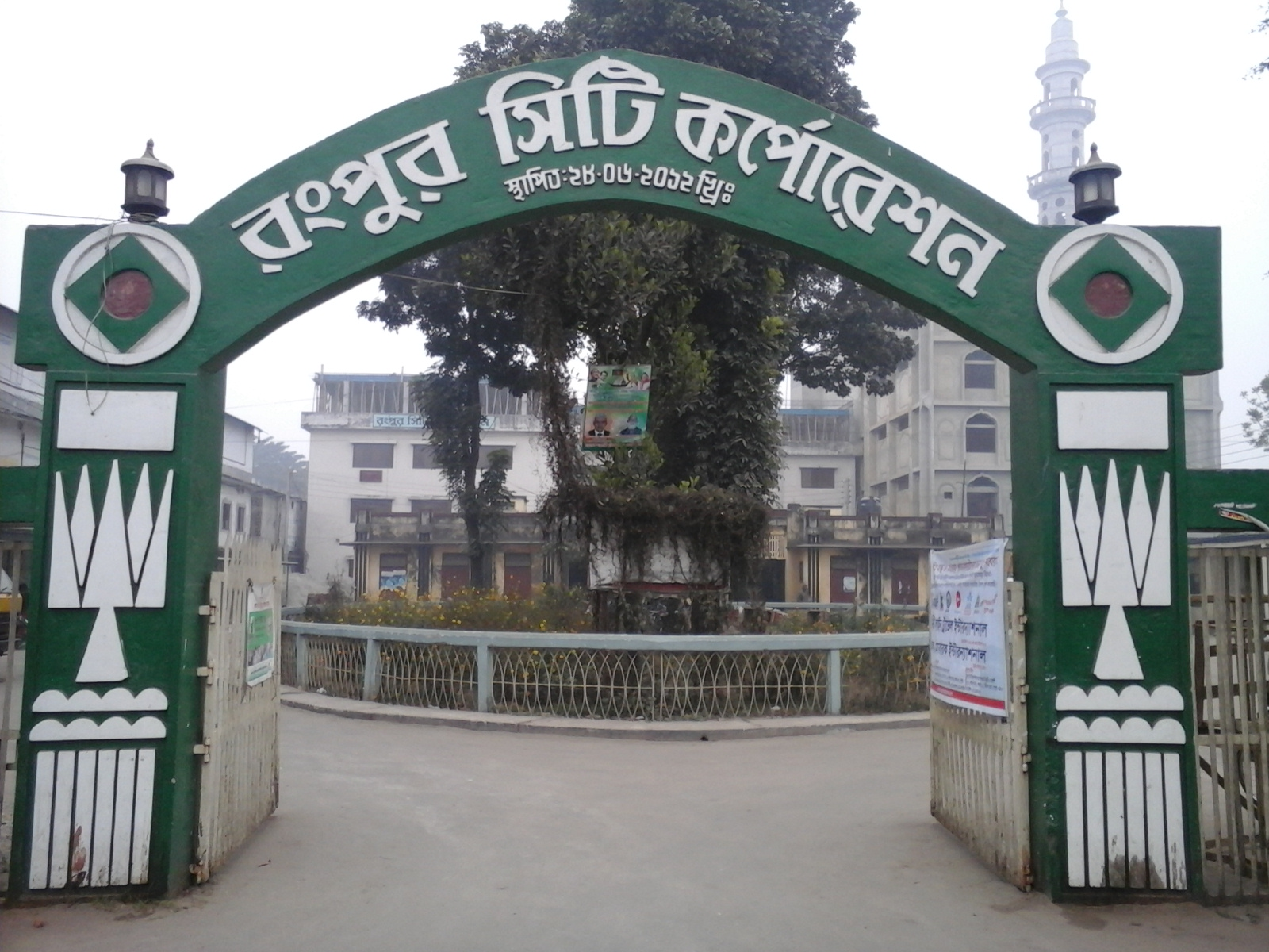 Rangpur City Corporation